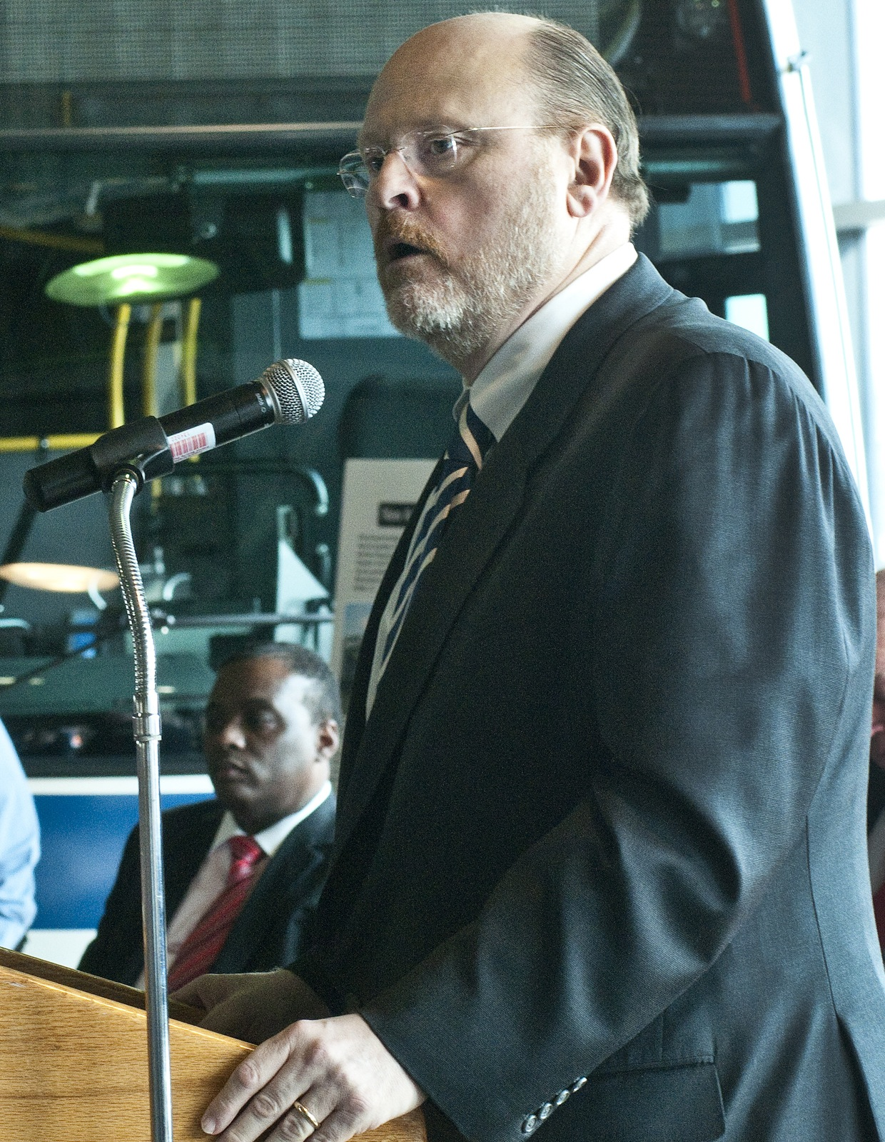 In honor of the World War II African-American military pilots and support personnel who made up the famed flight-training program at Tuskegee Army Air Field, on March 23, 2012, MTA New York City Transit renamed the 100th Street Bus Depot as The Tuskegee Airmen Bus Depot. This photo shows MTA Chairman Joseph J. Lhota delivering remarks at the ceremony. Photo by Metropolitan Transportation Authority / Patrick Cashin.